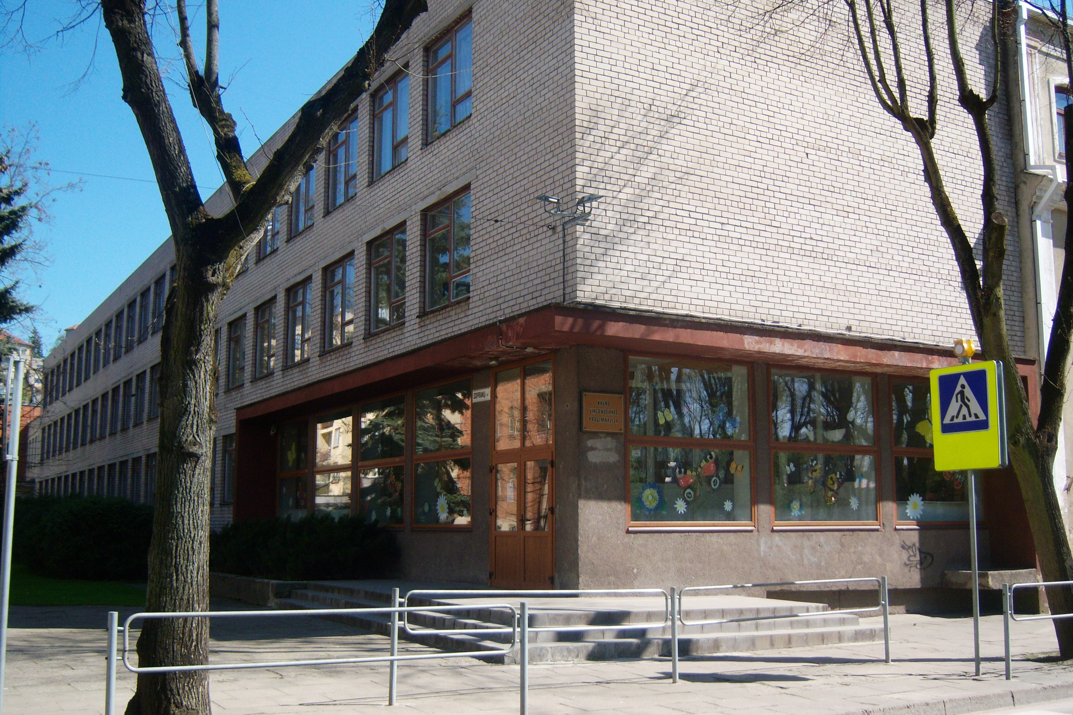 Vincas Kudirka progymnasium, Kaunas, Lithuania